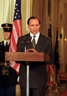 Paul Keating at the U.S. White House in September 1993